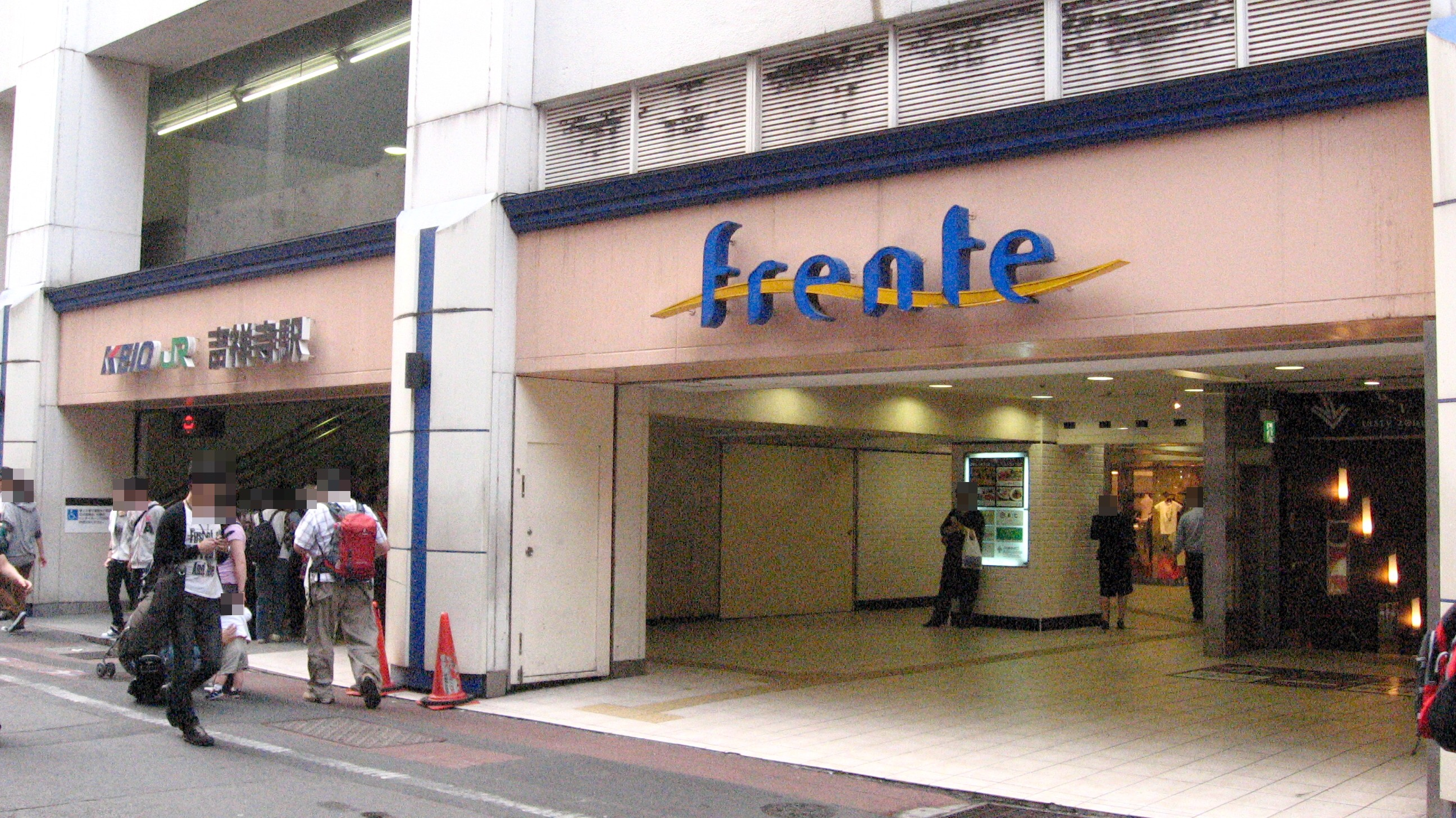 Frente in Kichijoji station Keio inokashira line.